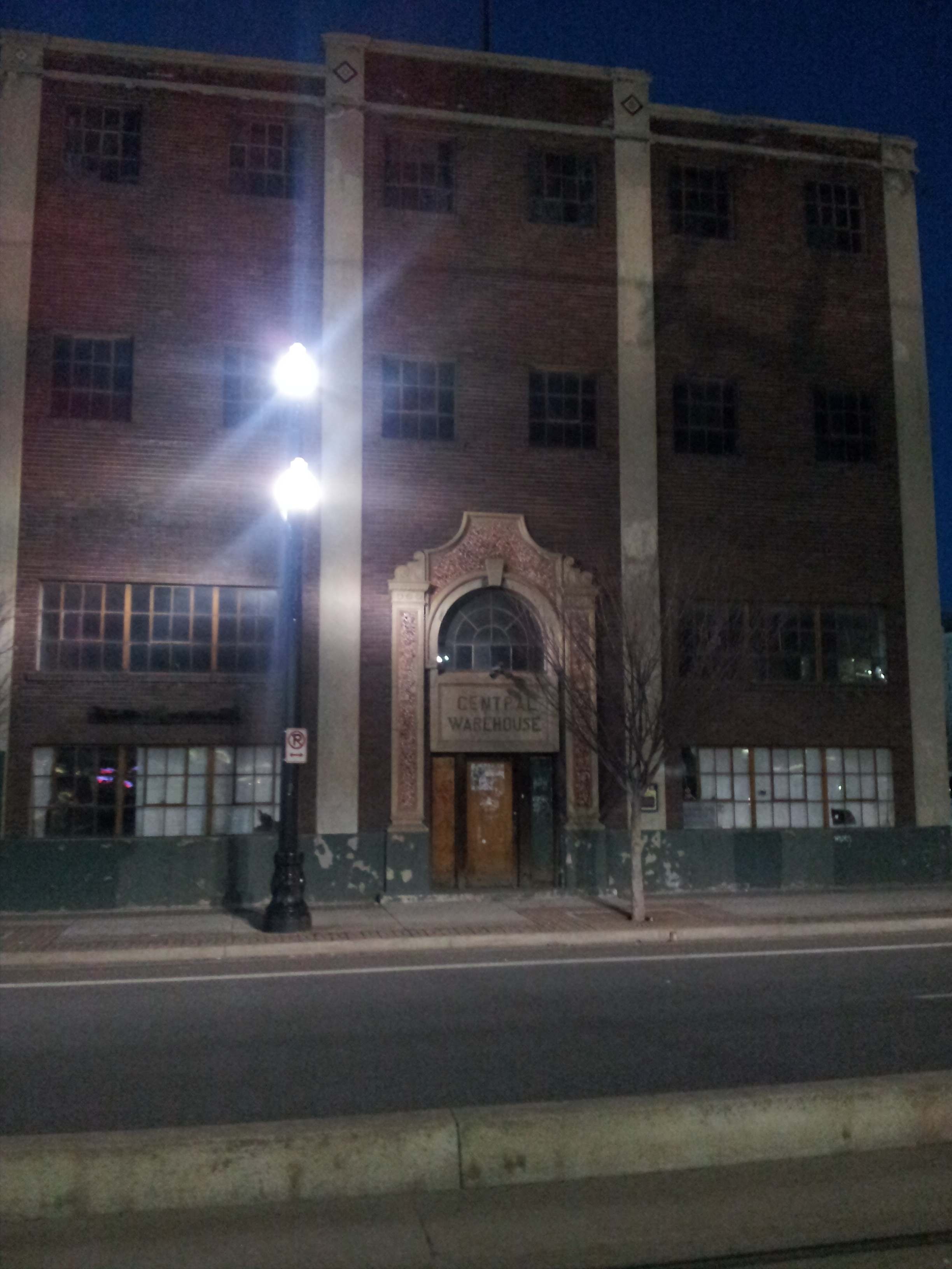 The Central Warehouse on 200 S in Salt Lake City as viewed at night from Old Greektown TRAX station.